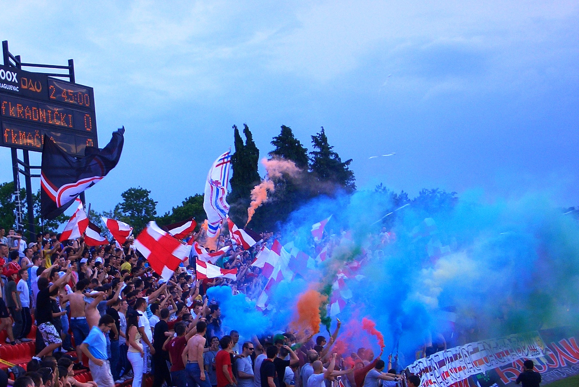 Supporters of Šumadija Radnički 1923 from City of Kragujevac are known as Red Davils.